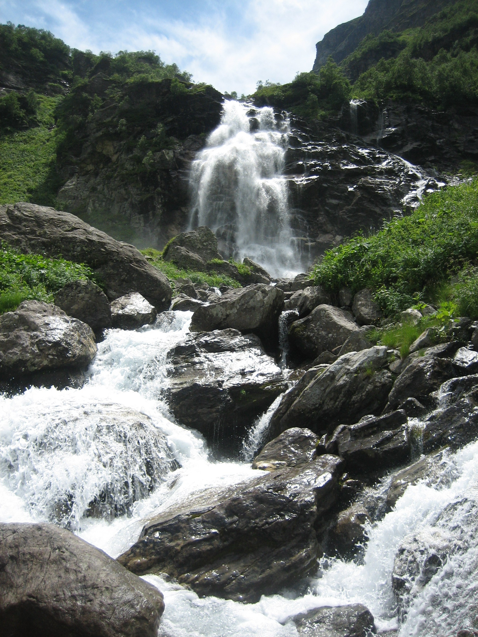 Urupsky District, Karachay-Cherkessia, Russia